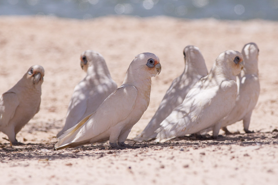 Strzelecki Track, South Australia